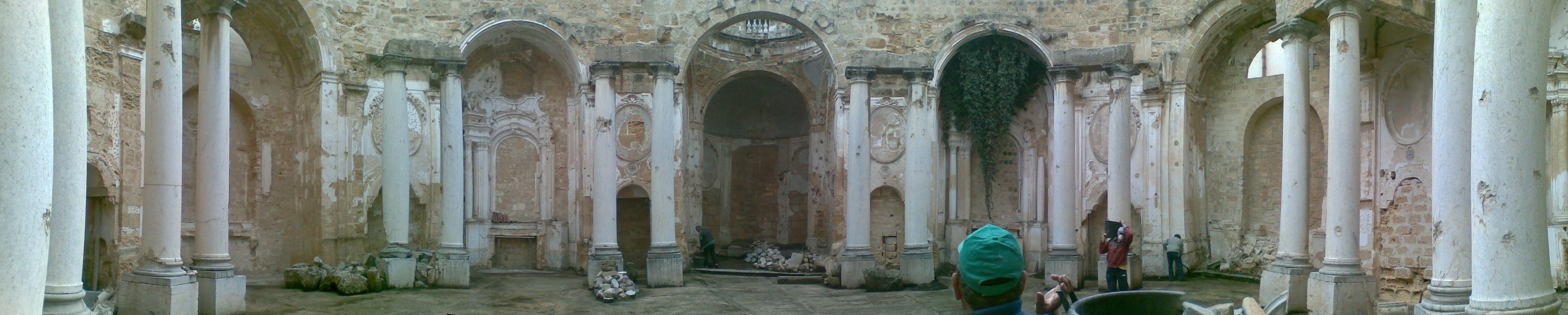 Church of Saint Ignatius - Interior - Mazara del Vallo